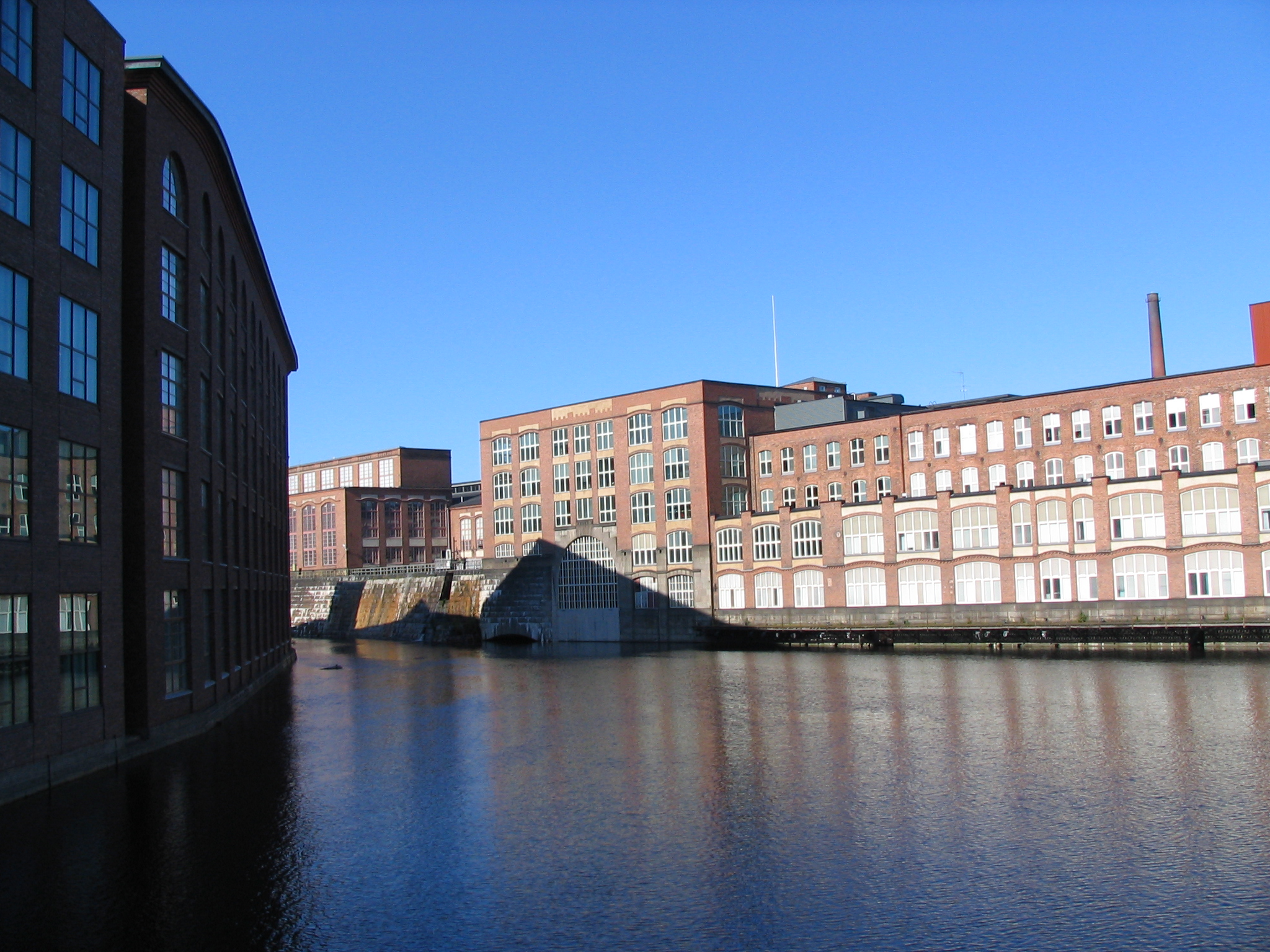 Finlayson and Tampella factories in Tampere, Finlayson on the right. Tampella hydroelectric powerstation is located behind the arched window. The downstream outlet of the station is perceivable by the water surface left of the window. Left of the large window and the power station building, the inlet channel of the powerstation is visible. Above the inlet channel, the nowadays city museum building Vapriikki. Right of the powerstation, the Tampere courthouse. It's worth noting the arched window was restored only recently, probably the same year photograph was taken. At start of Winter War in 1939, the window was dismantled and arch shut with concrete as aerial bombardment was feared.